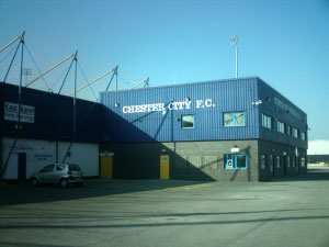 Saunders Honda Stadium home to Chester City FC by